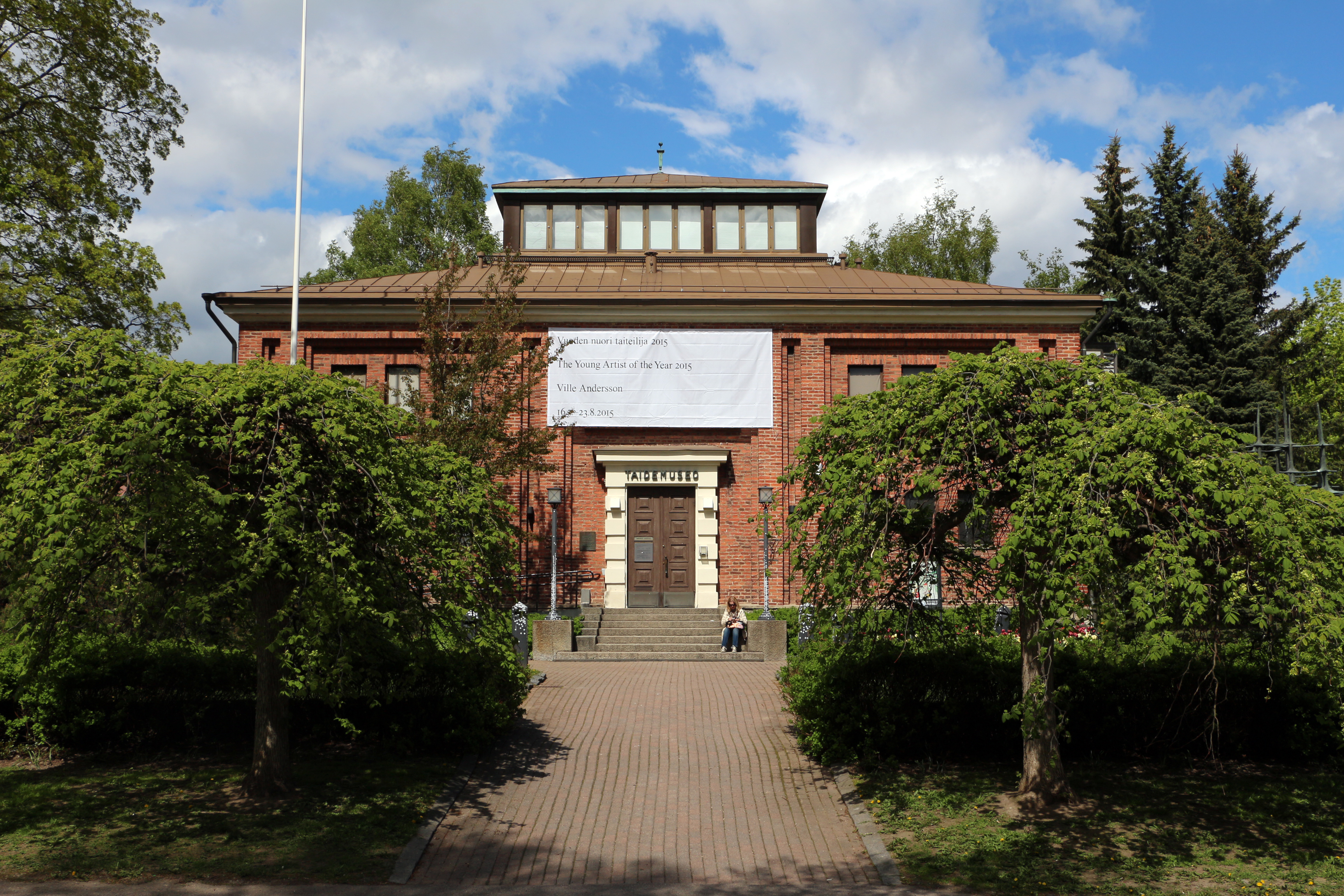 Tampere